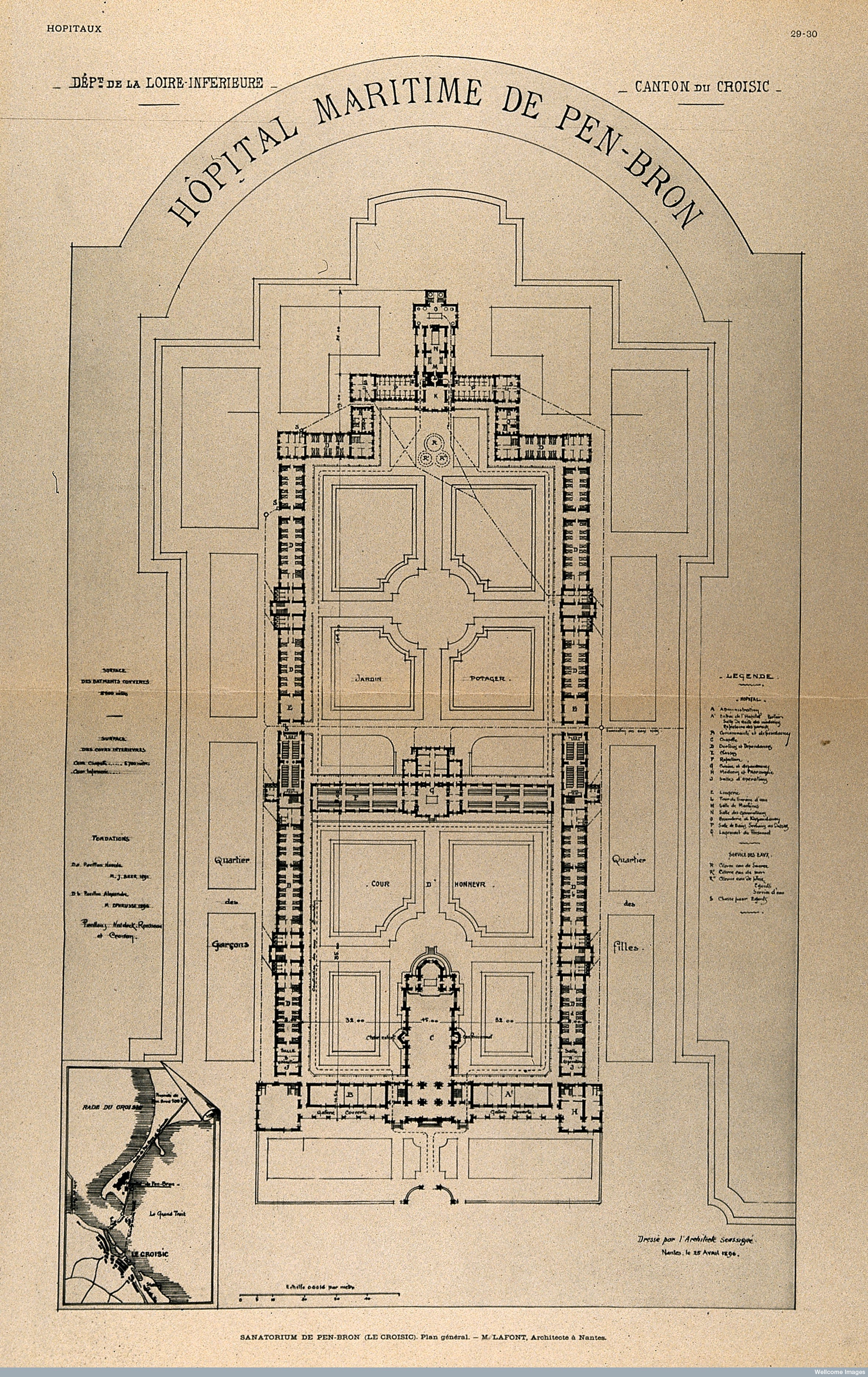 V0014861 Sanatorium de Pen-Bron (Le Croisic): general plan. Process p Credit: Wellcome Library, London. Wellcome Images Sanatorium de Pen-Bron (Le Croisic): general plan. Process print, 1913, after a drawing, 1896. 1896-1913 after: Gaston Lefol and LafontPublished: 1913] Copyrighted work available under Creative Commons Attribution only licence CC BY 4.0